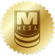 MESA Certification illustration